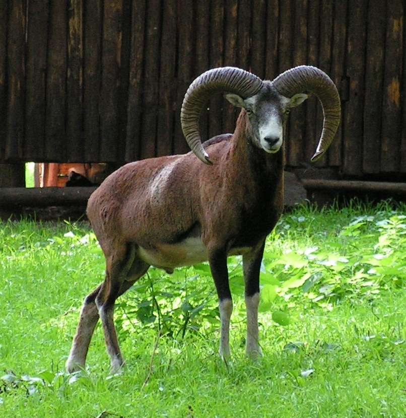 European mouflon